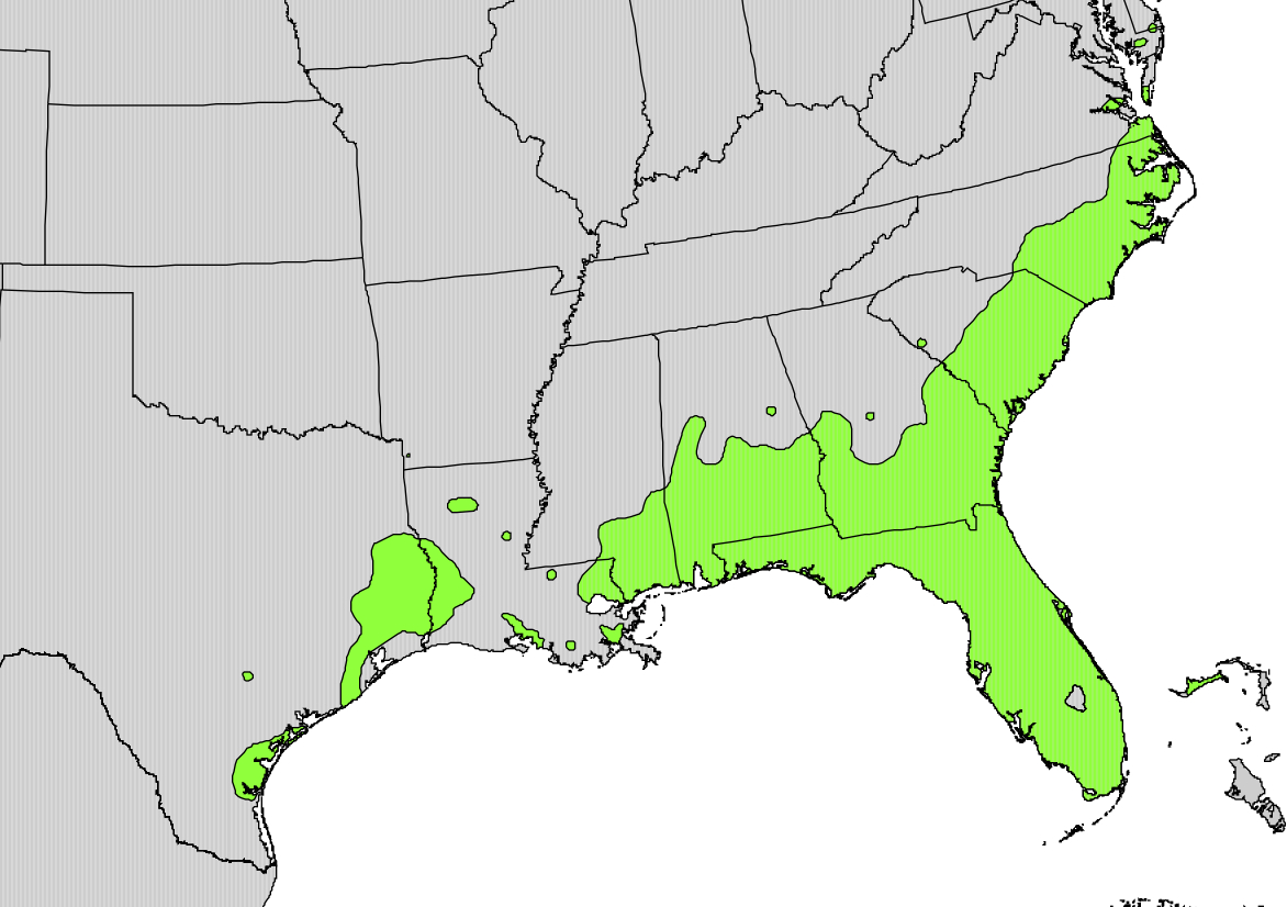 Range map of Persea borbonia.